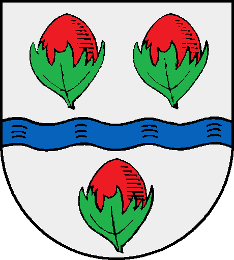 Coat of arms of the municipality Haselau in Schleswig-Holstein, Germany.